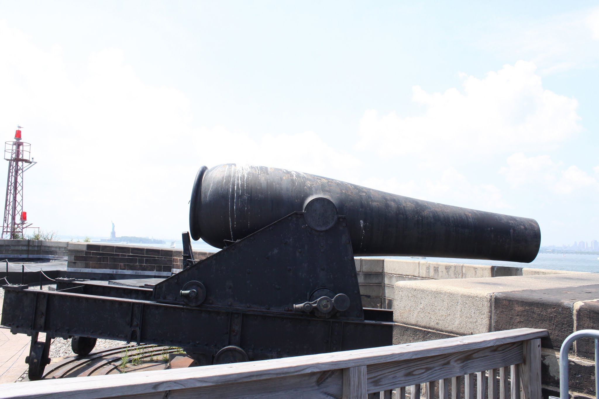 15-inch Rodman gun on top of Castle Williams, Governors Island, New York.